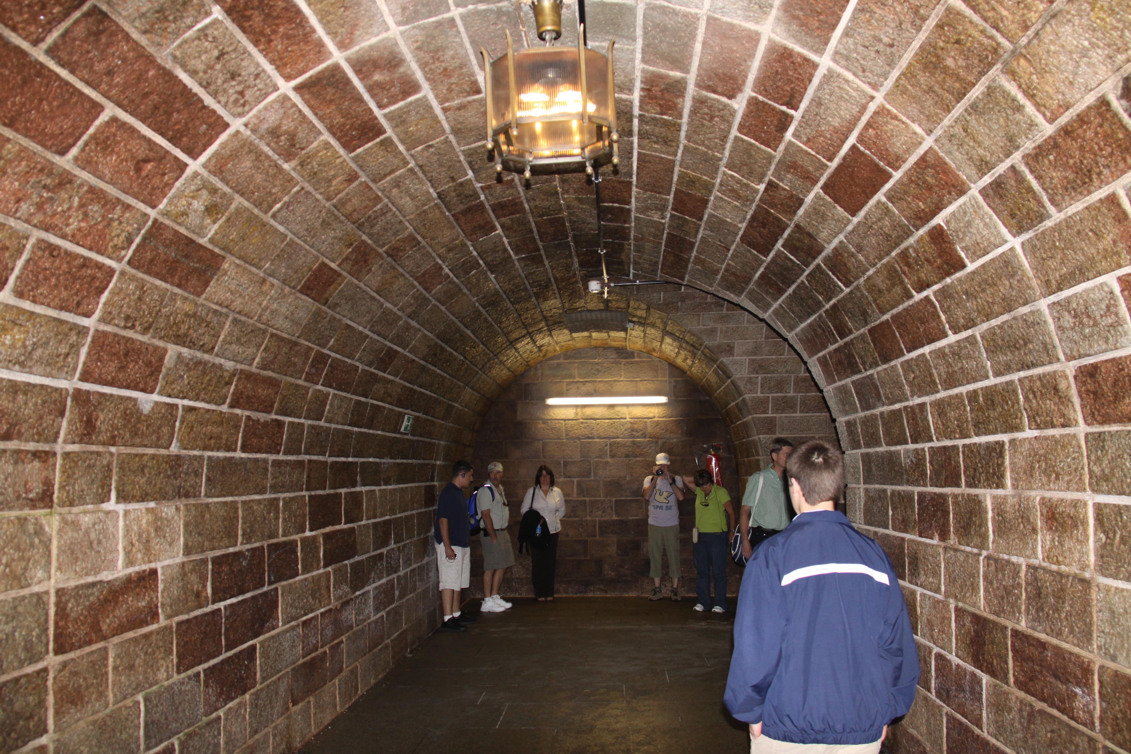 Underground passage to the Kehlsteinhaus elevator